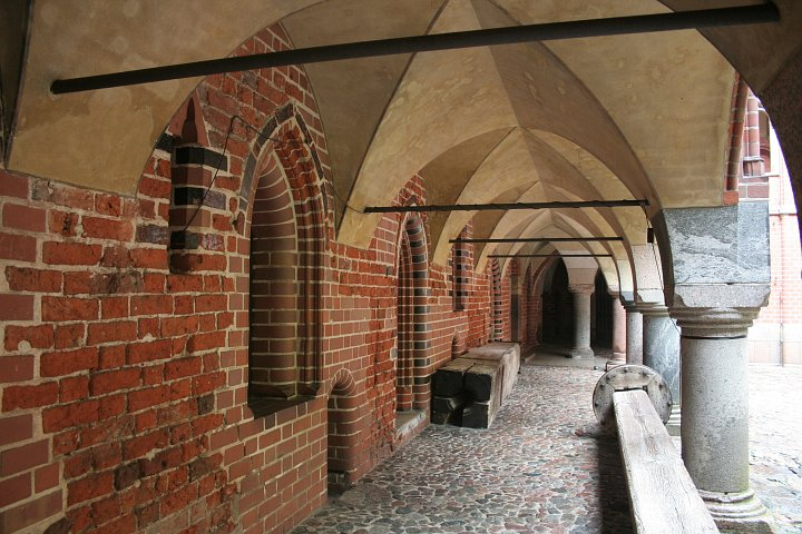 Malbork, cloister at High Castle, ground floor